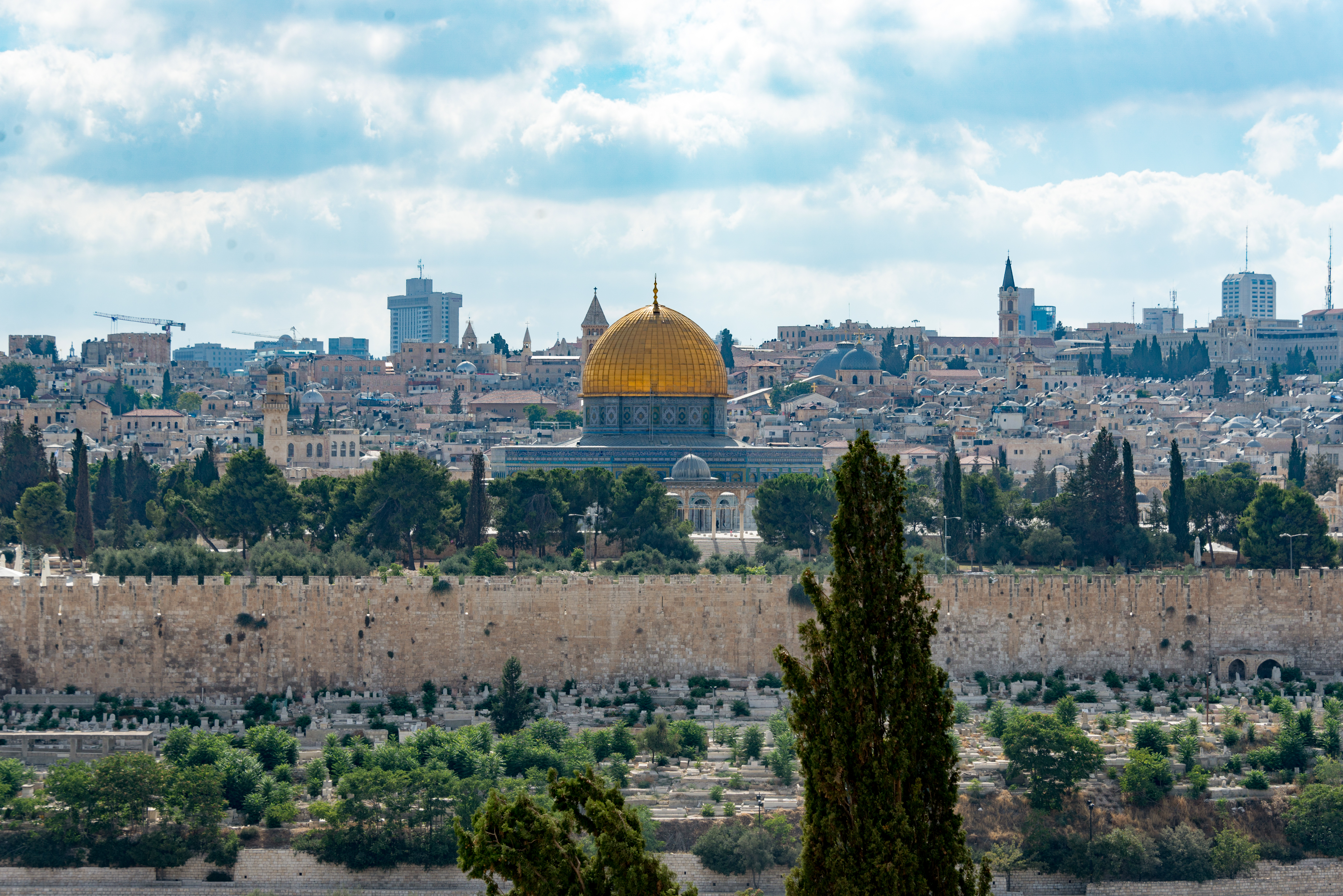 121086-Jerusalem-Mount-of-Olives Jerusalem Mount of Olives